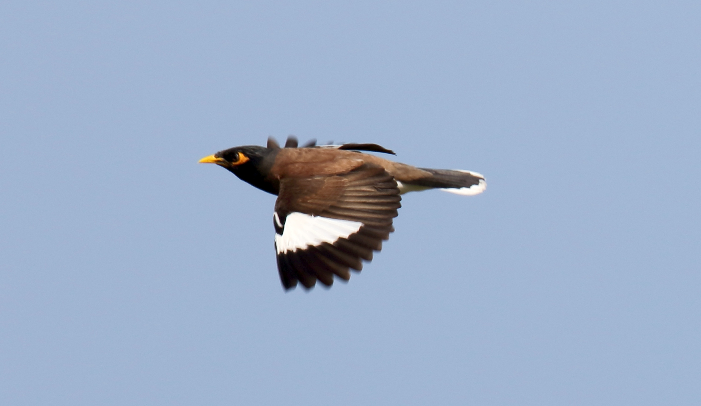 Common Myna (Acridotheres tristis)